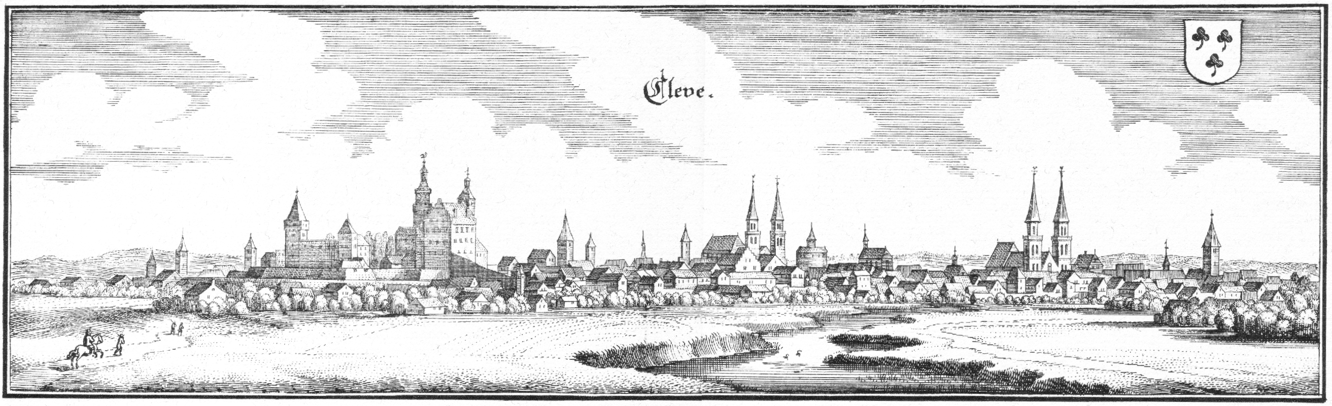 Copper-engraving of the view on Cleves by Matthäus Merian. Published in "Topographia Germaniae" edition: "Topographia Westphaliae" in 1647. This scan was made from a facsimile-print published in 1961 by Bärenreiter, Kassel based on the original edition.